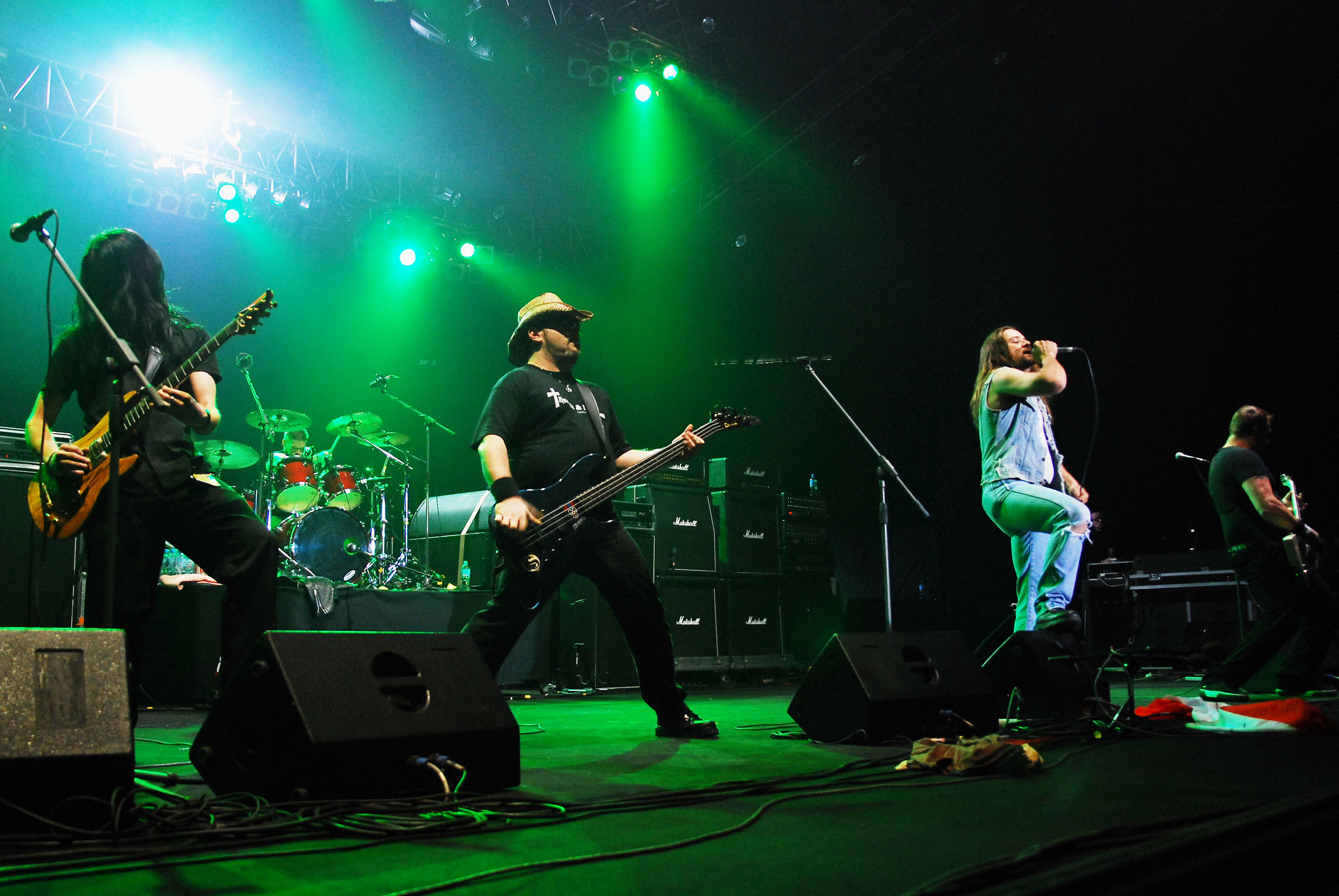 Flotsam&Jetsam during Metalmania 2008 festival